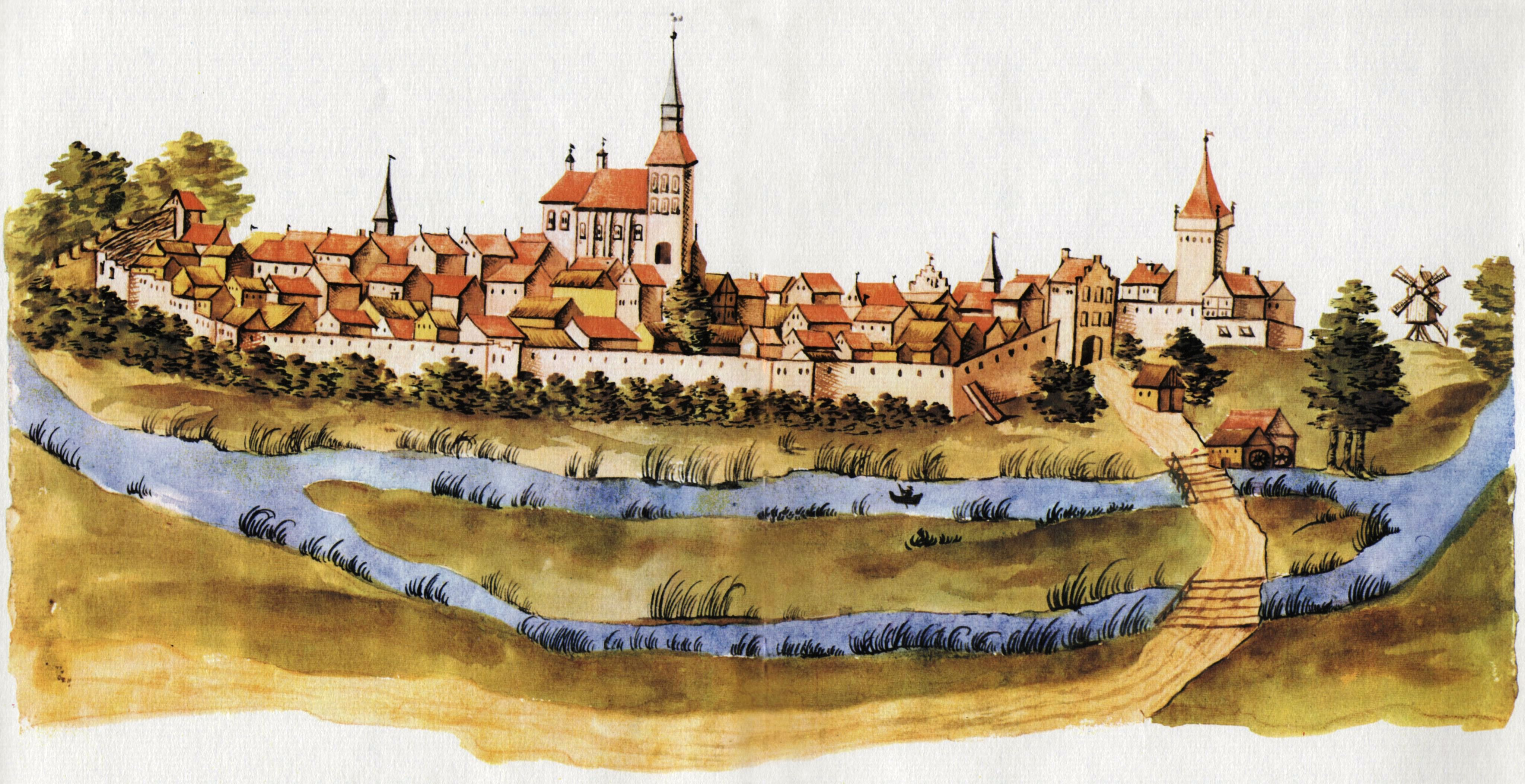 Cityview of Tribsees from the "Stralsunder Bilderhandschrift"